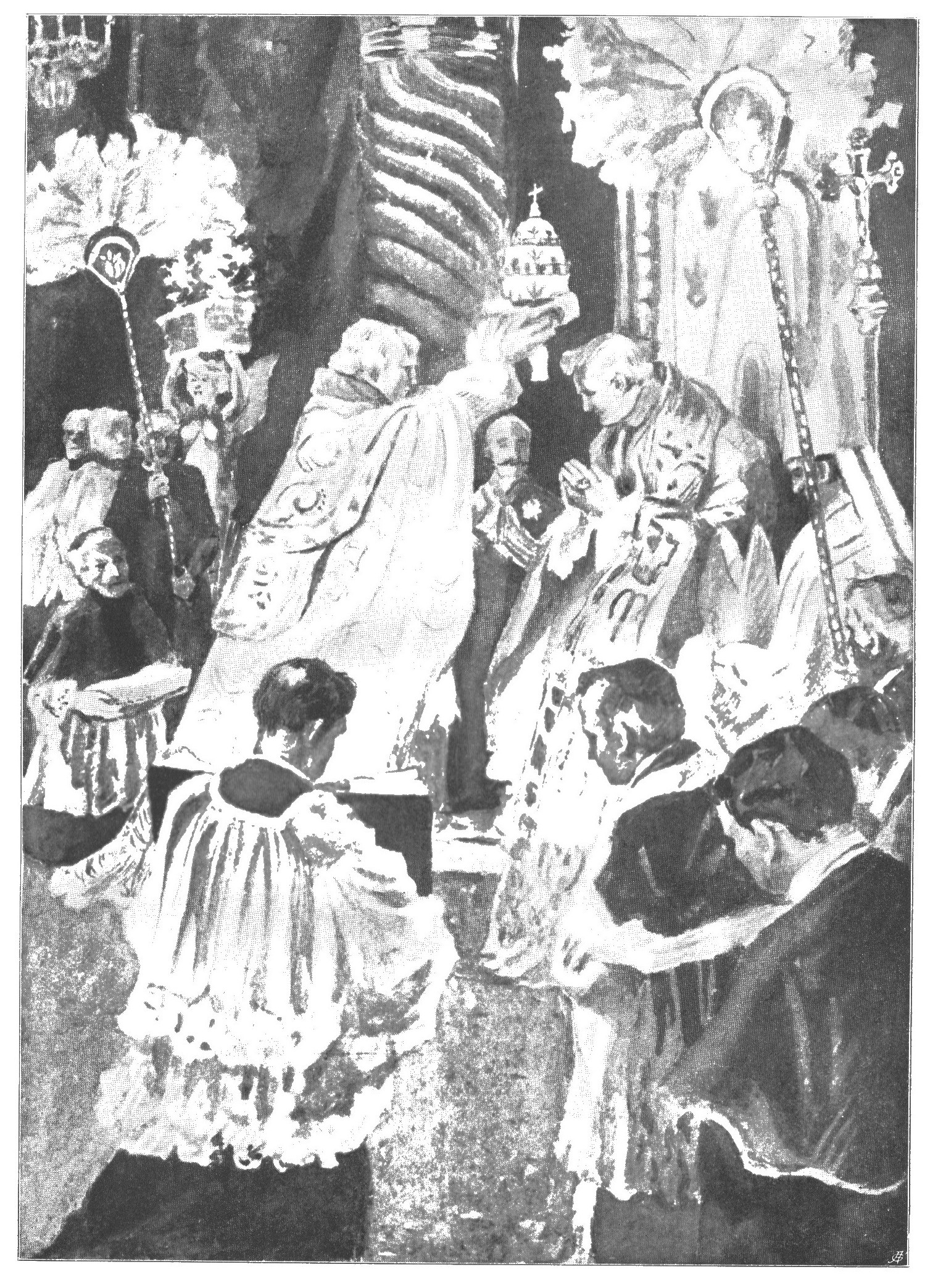 Coronation Pius X on 9 August 1903 Vatican